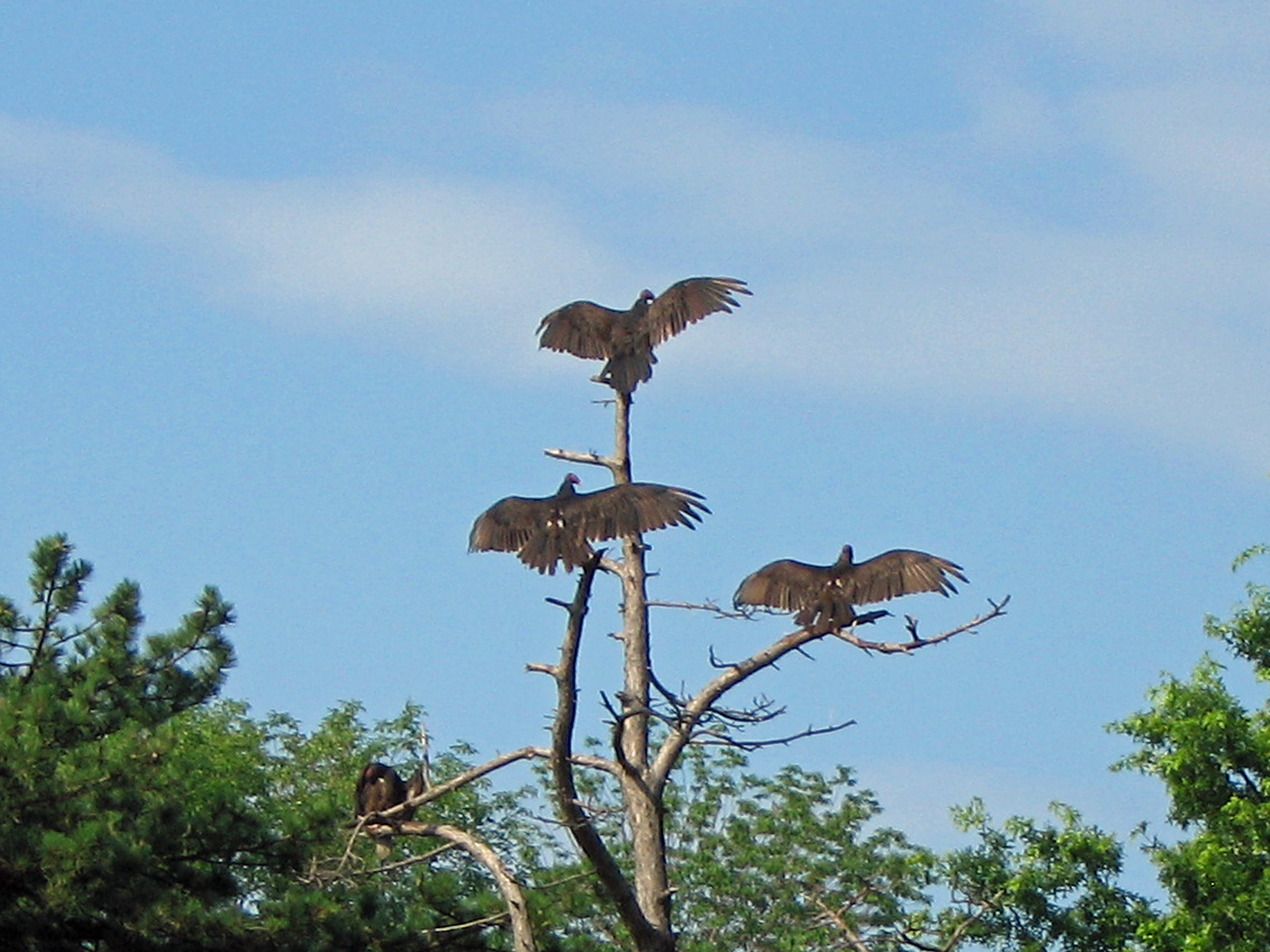 3 Spread Turkey Vultures, Cathartes aura